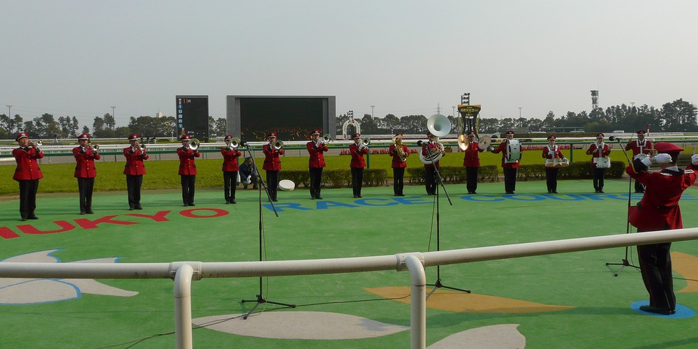 Chukyo_Racetrack_03